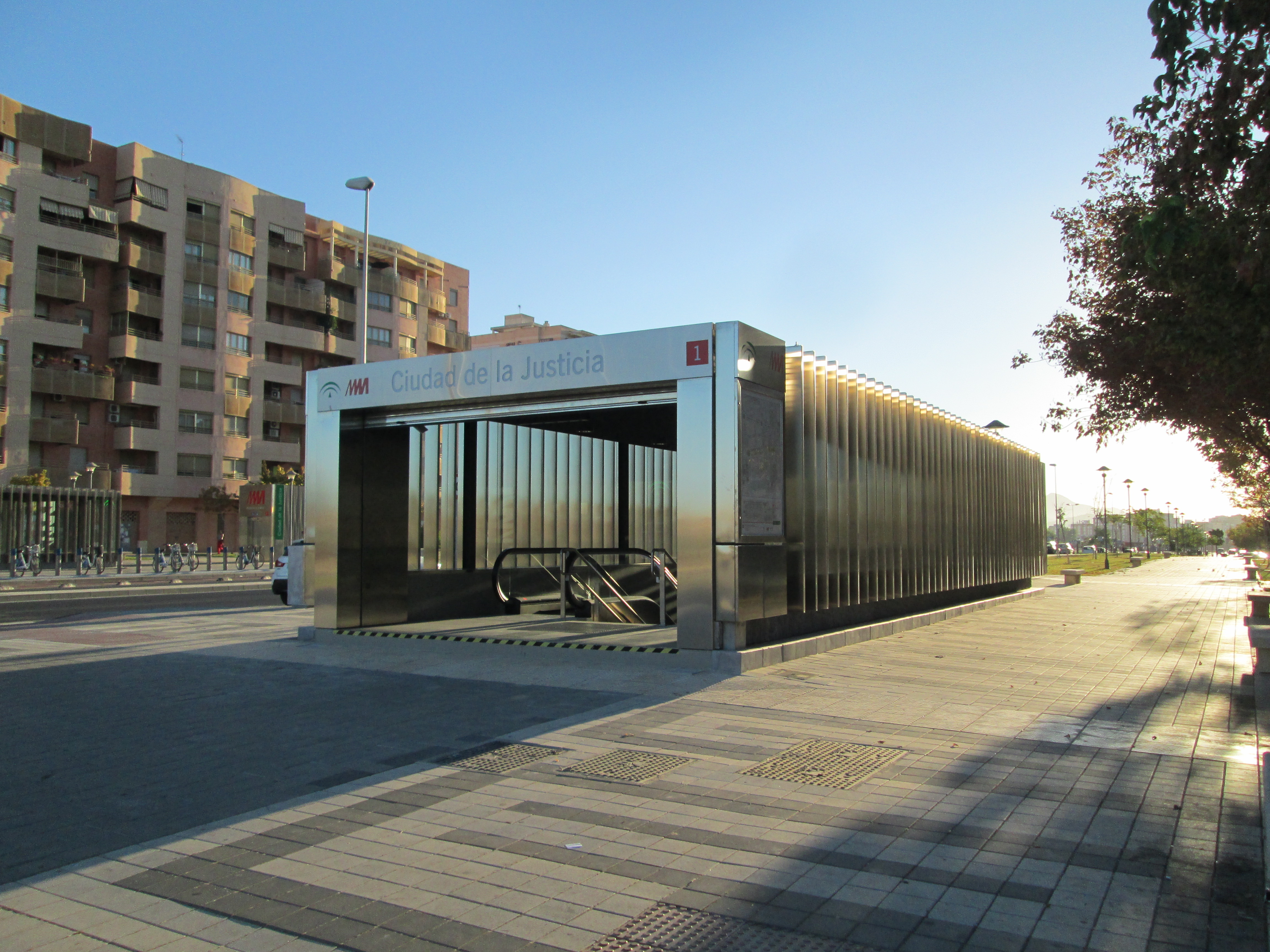 Estación de Ciudad de la Justicia